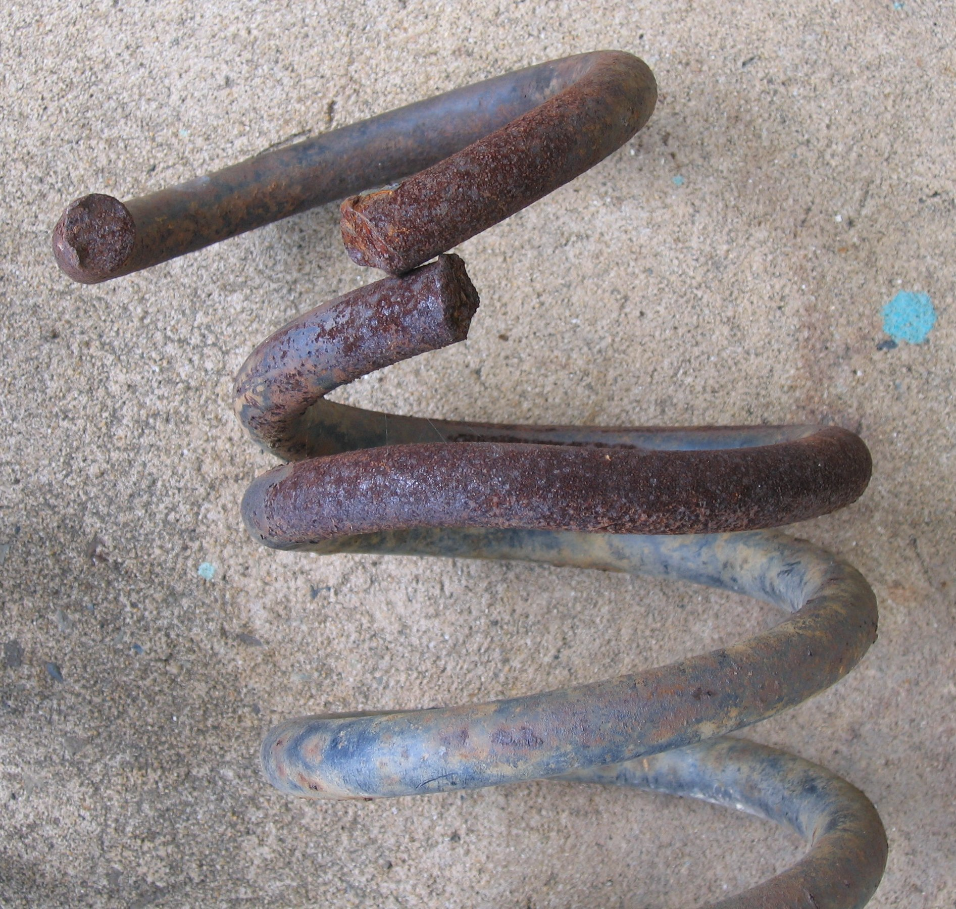 A car suspension coil spring that has been oxy-cut, destroying the tempering of the adjacent turn